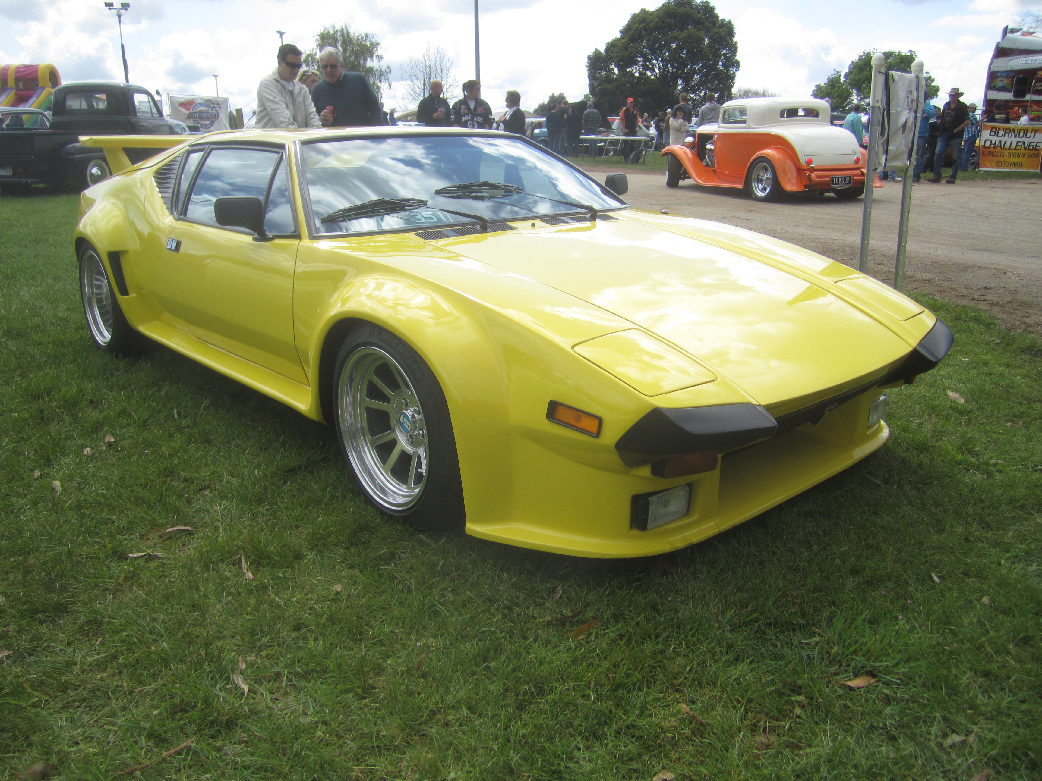 DeTomaso was an Italian company known for producing sports and luxury vehicles. The 1st Sports car was the 1963-66 Vallelunga with mid mounted Cortina engine. The 2nd was the Mangusta, built from 1966-1971, with help from Carroll Shelby, it had mid mounted 289 Ford V8 engine (until 1968, then 302) The 3rd, the 1971-93 Pantera with 351 Cleveland Ford V8. Unlike the Mangusta, which employed a steel backbone chassis, the Pantera was a steel monocoque design. 7260 were made. The Luxury Pantera L was introduced in 1972, it featured large black bumpers and the GTS with even more luxury in 1974. In 1975, the GT5, which had rivetted wheelarch extensions and the GT5S model which had blended arches and a distinctive wide-body look The last was the 1993-04 Guara (BMW V8 til 98 then Ford V8)